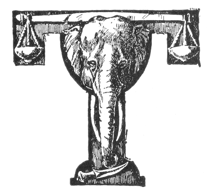 Stylized capital T illustration appearing on the first page of the chapter "How Fear Came".